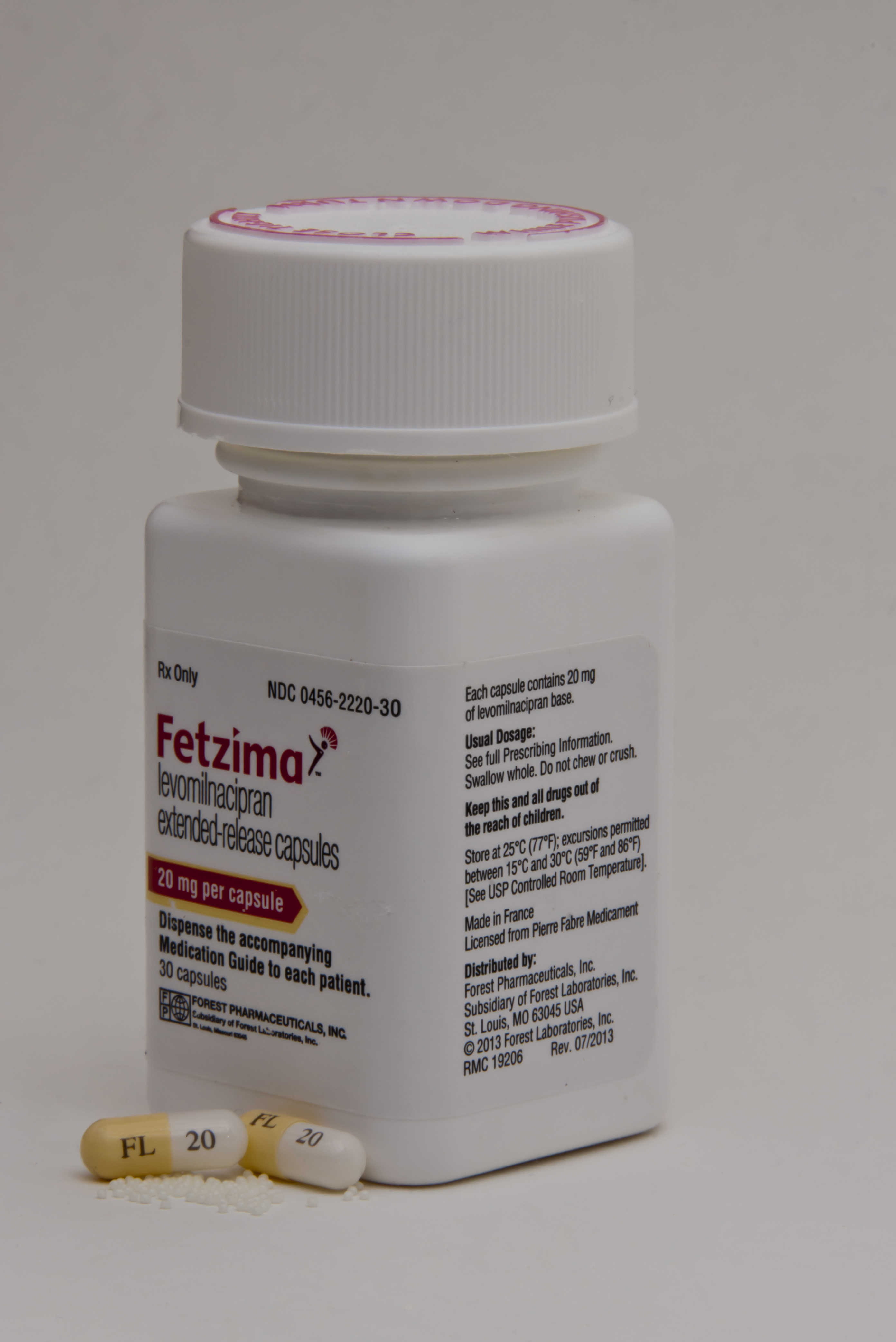 Fetzima 20mg (FDA approved on July 26th 2013); Forest Laboratories, a serotonin–norepinephrine reuptake inhibitor. Levomilnacipran